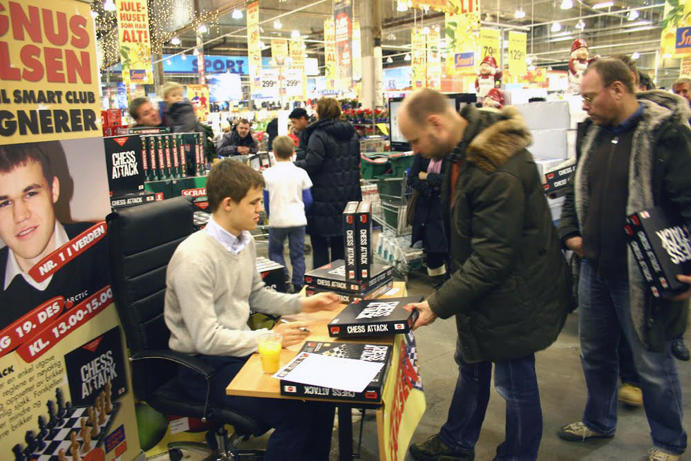 Magnus signing Chess Attack